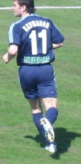 Alexandr Kerzhakov. 2006 Russian Premier League (FC Zenit St.Petersburg v.s. FC Spartak Moscow)